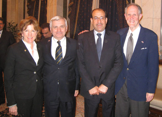 Left to Right: Senator Kay Hagan (D-North Carolina), Senator Jack Reed (D-Rhode Island), Iraqi Prime Minister Nouri al-Maliki and Senator Ted Kaufman (D-Delaware).